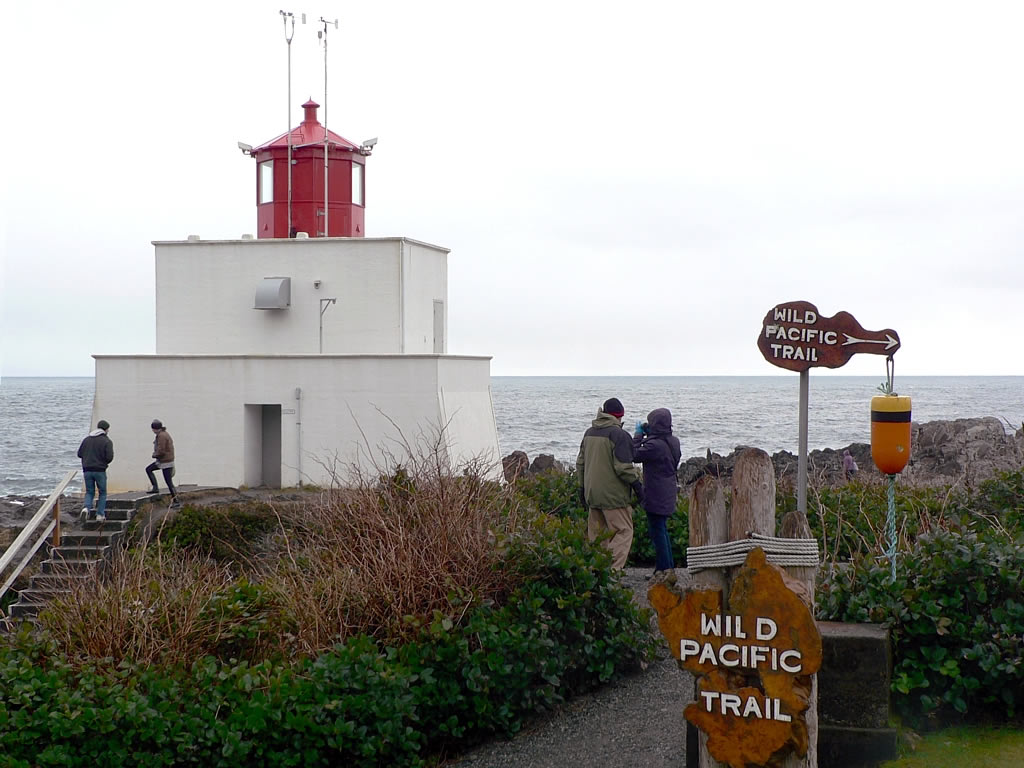 During the age of sail, Vancouver Island's wild west coast was known as the Graveyard of the Pacific for the number of ships lost here. The current Amphitrite Lighthouse at Ucluelet, BC, dates from 1915.